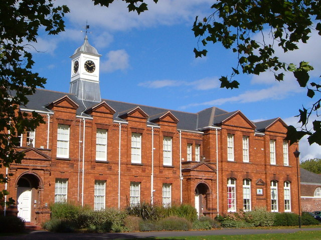 Officer's Quarters, Higher Barracks, Exeter. Another view of 255080, showing the clock tower and part of the grassed quadrangle in front.